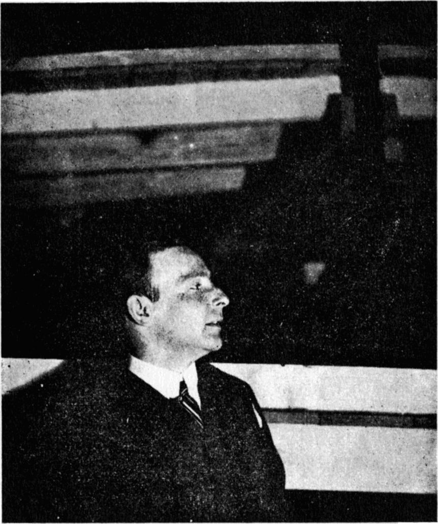 F. Kiesler at the 'Internationale Ausstellung neuer Theatertechnik', Vienna. 1924.